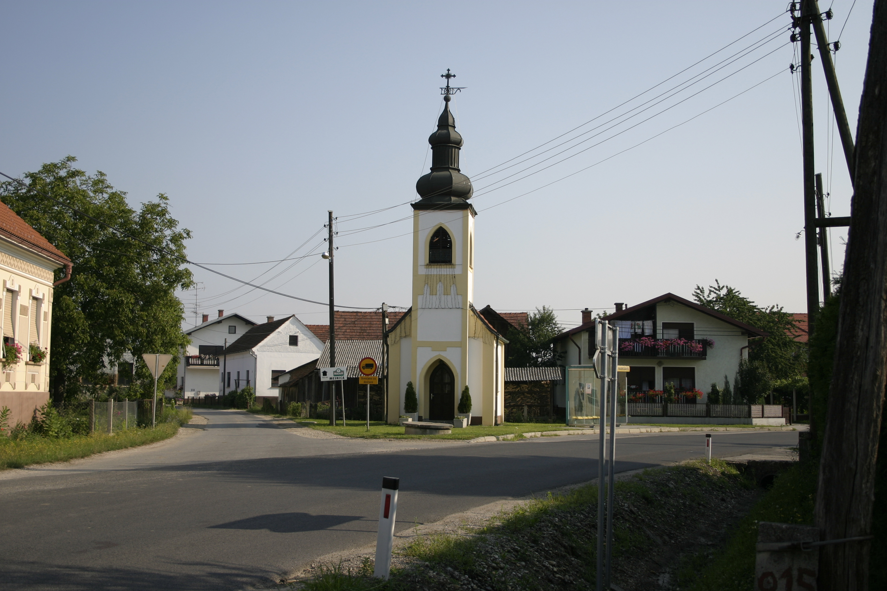 Chapel Markišavci Slovenia